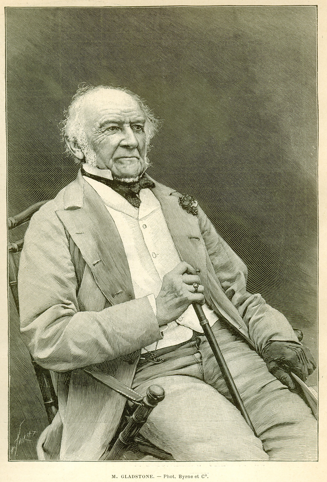 Photograph of William Ewart Gladstone, a former British Prime Minister.